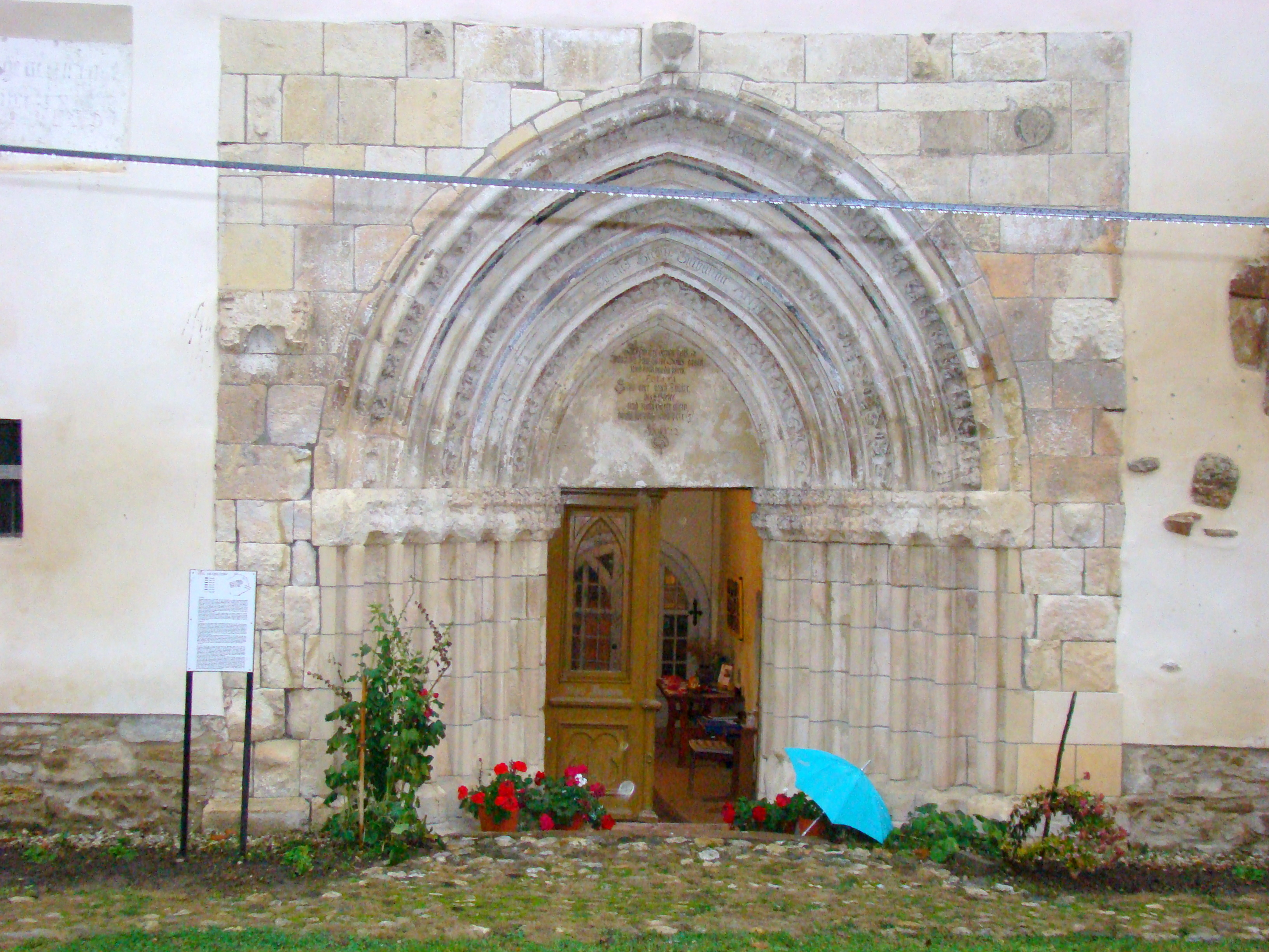 Lutheran church in Ațel, Sibiu County, Romania